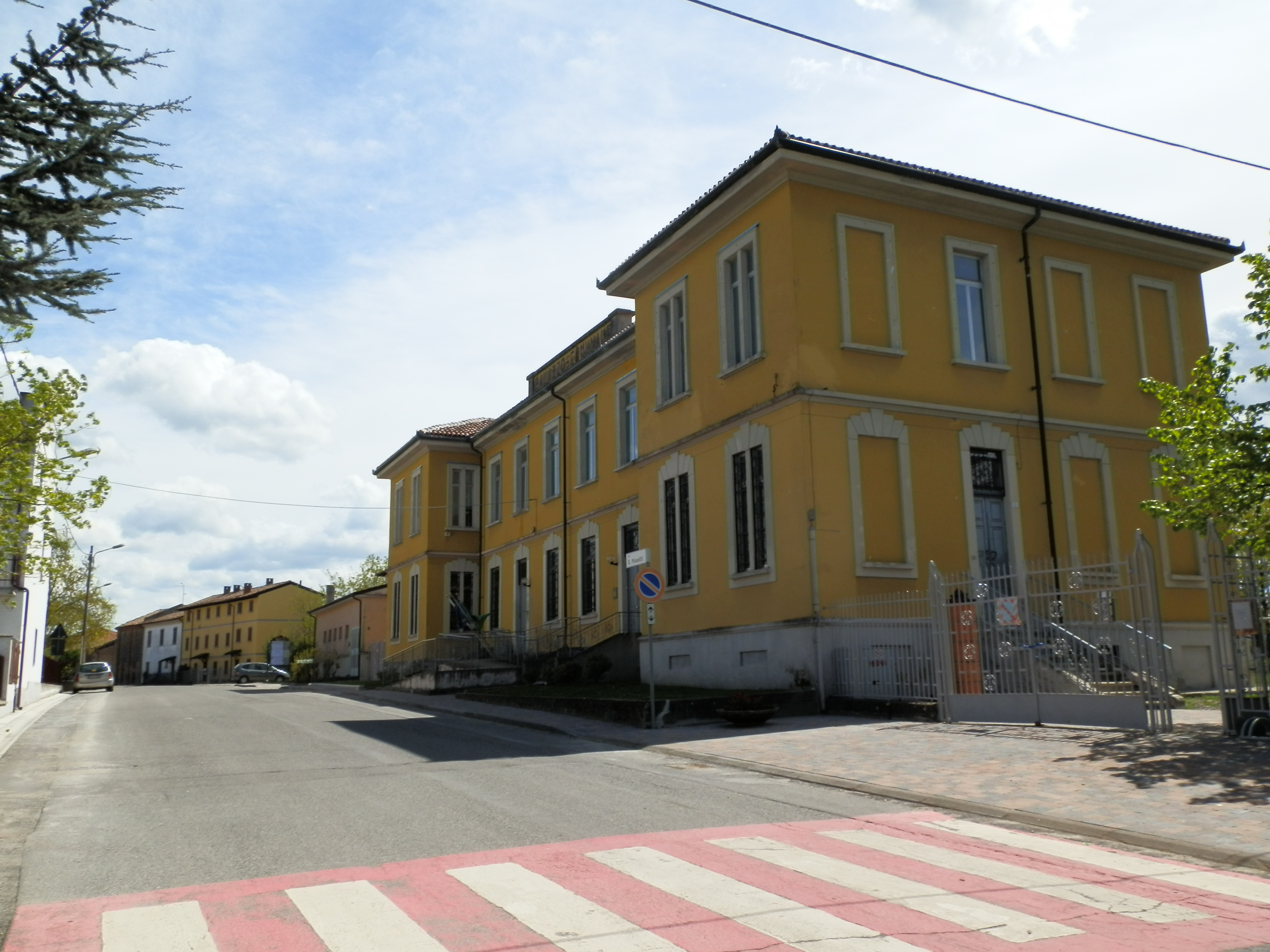 School Montalto Pavese